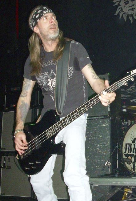 Rex Brown in Sala Joy Eslava, Madrid.